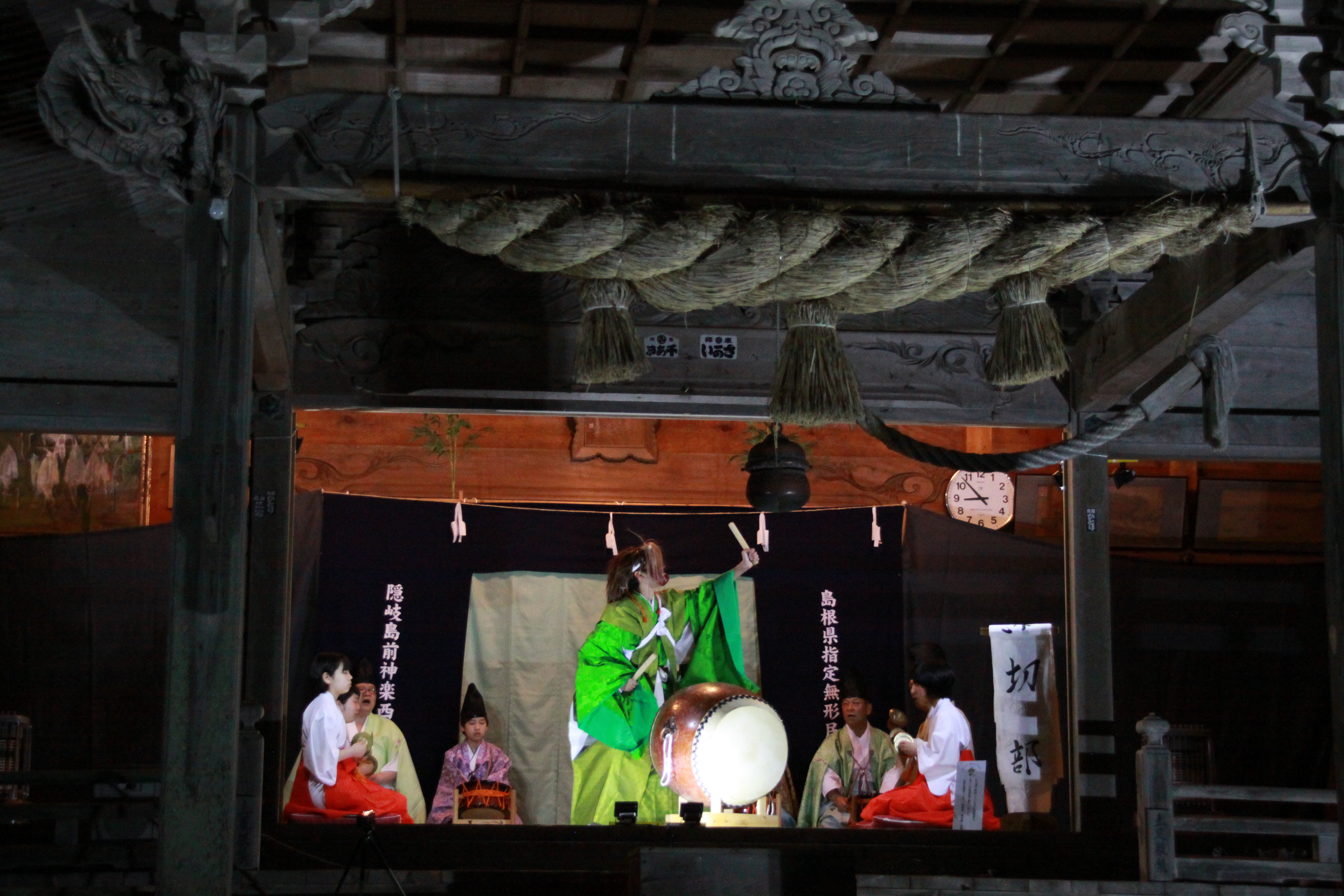 Oki-Dozen Kagura, Yurahime Shrine, Nishinoshima